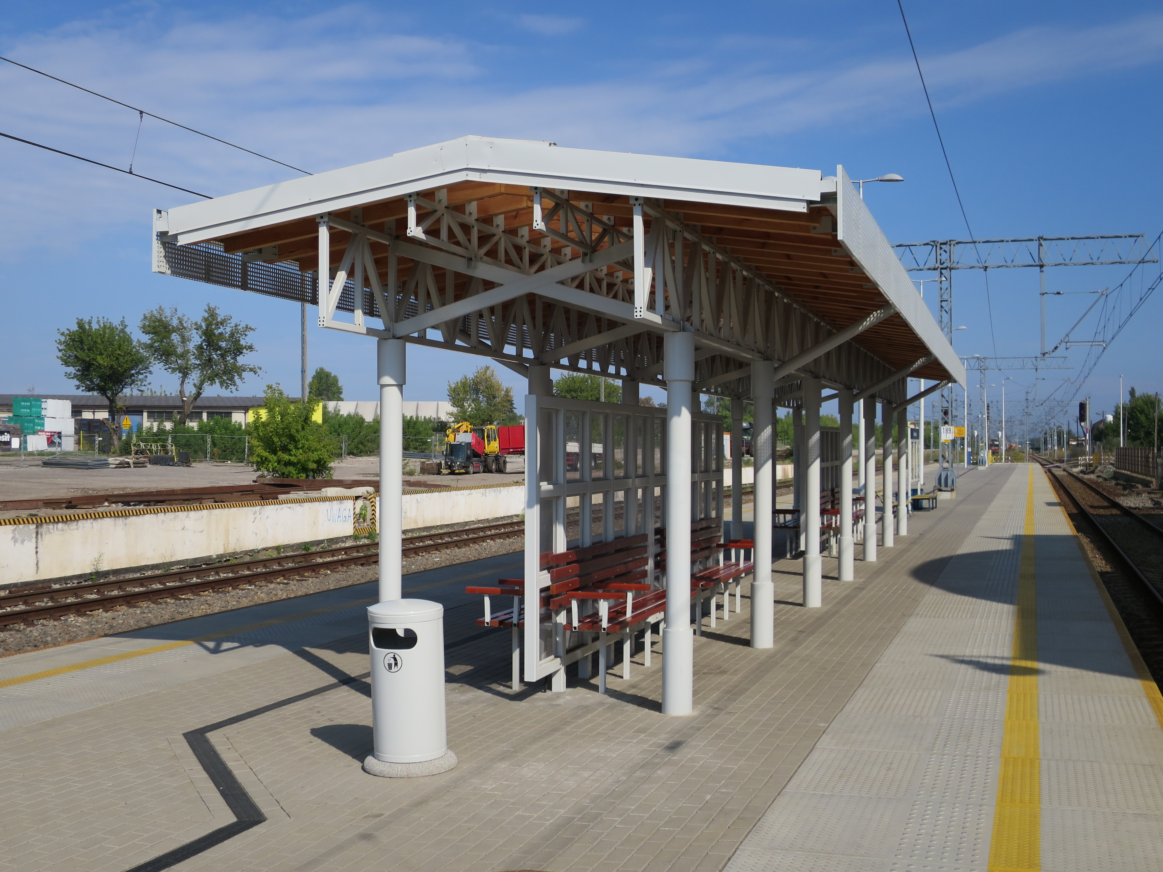 Radomsko This photo was taken during Railway Wikiexpedition 2015 set up by Wikimedia Polska Association in cooperation with Fundacja Grupy PKP. You can see all photographs in category Wikiekspedycja kolejowa 2015.